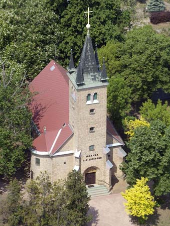 Budapest, district XVII, Hungary, aerial photography